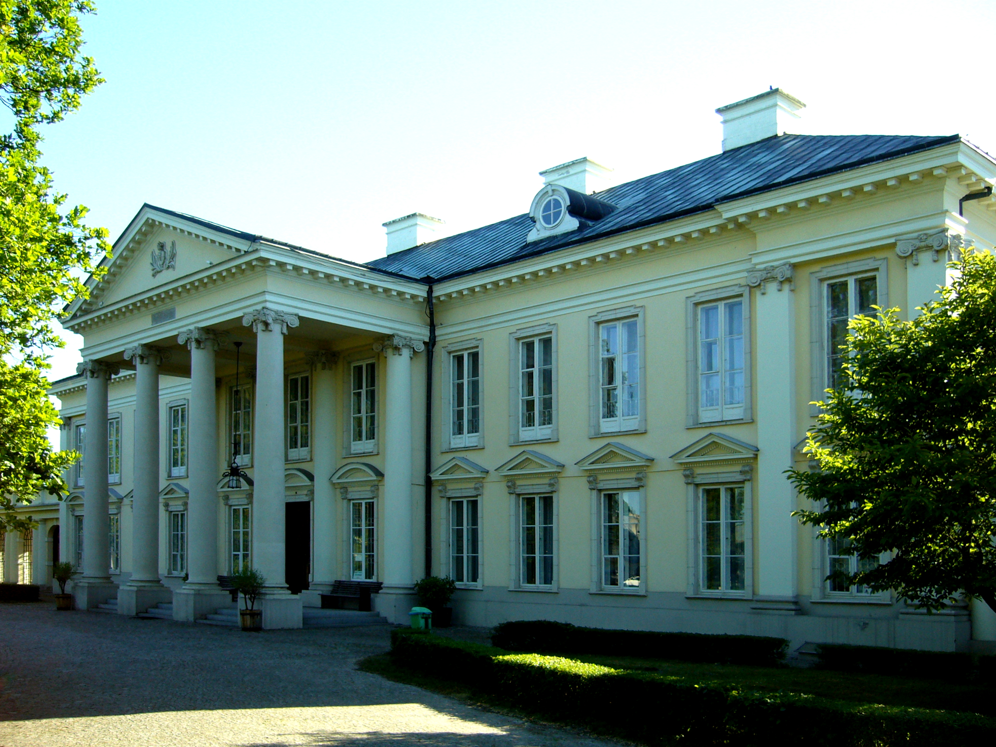 Palace in Walewice. Poland.